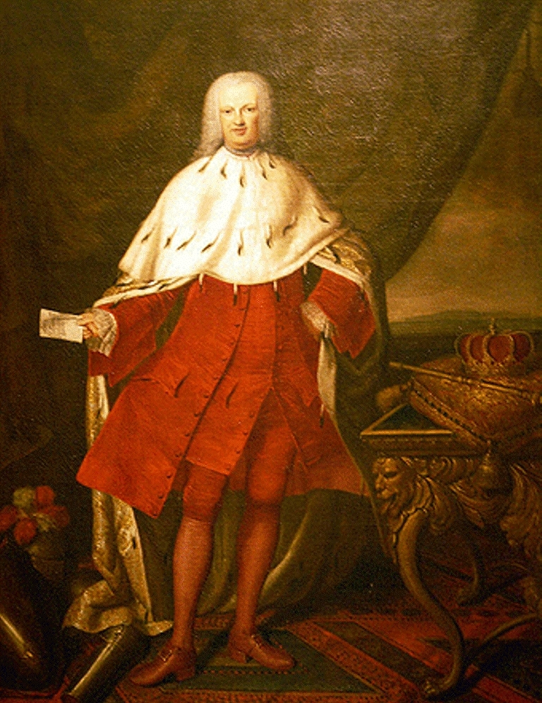 Portrait of Giovanni Giacomo Grimaldi, Doge of Genoa (1756-1758)